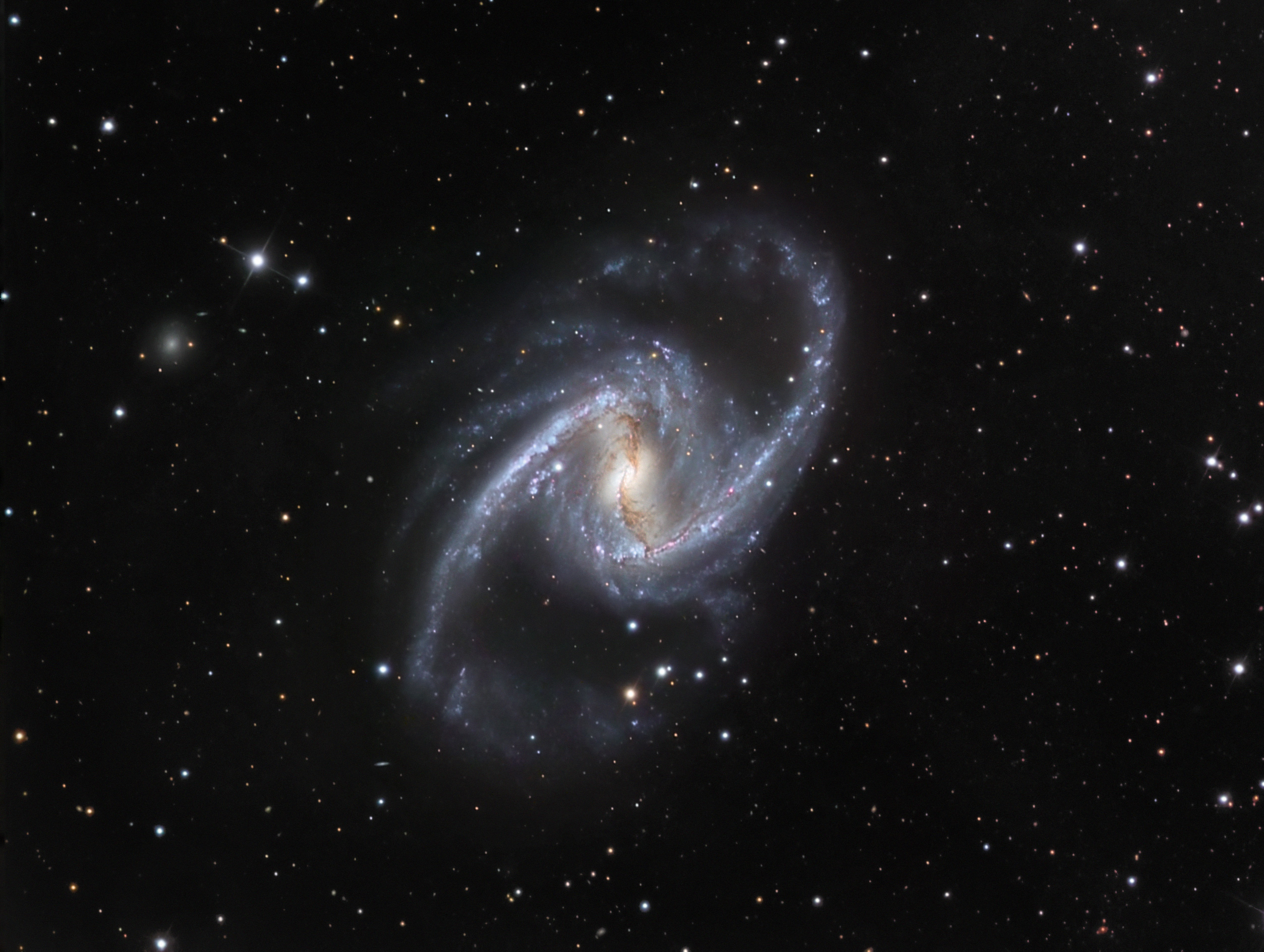 Spiralling around, 61 million light-years away in the constellation Fornax (the Furnace), NGC 1365 is enormous. At 200 000 light-years across, it is one of the largest galaxies known to astronomers. This, plus the sharply defined bar of old stars across its structure is why it is also known as the Great Barred Spiral Galaxy. Astronomers think that the Milky Way may look very similar to this galaxy, but at half the size. The bright centre of the galaxy is thought to be due to huge amounts of superhot gas ejected from the ring of material circling a central black hole. Young luminous hot stars, born out of the interstellar clouds, give the arms a prominent appearance and a blue colour. The bar and spiral pattern rotates, with one full turn taking about 350 million years. This image combines observations performed through three different filters (B, V, R) with the 1.5-metre Danish telescope at the ESO La Silla Observatory in Chile.